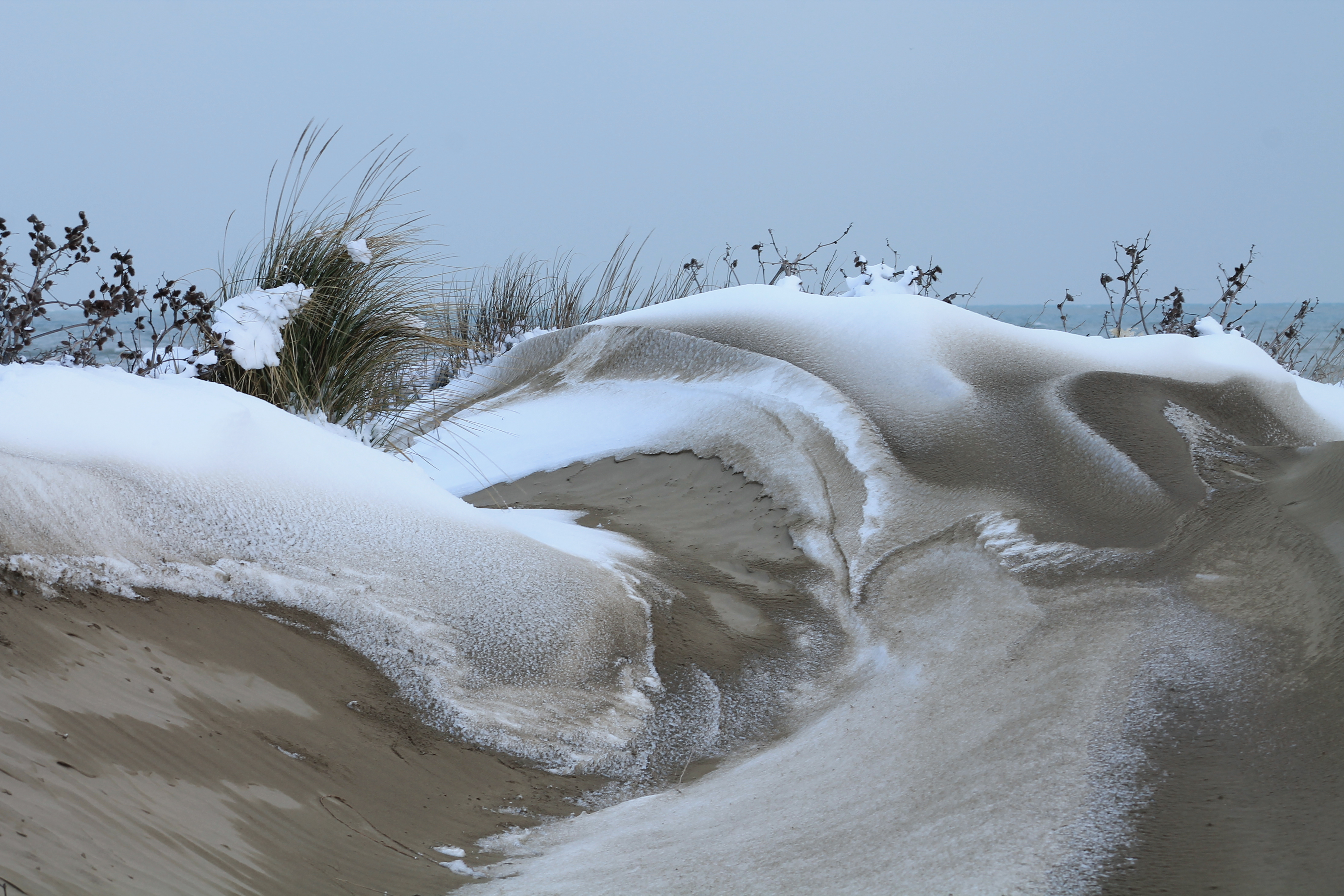 Dune degli Alberoni, the WWF protected area located at the southern end of Venice Lido. This is a photo of a monument which is part of cultural heritage of Italy. The authorisation for taking photos of this object was provided by the World Wide Fund for Nature Italy.